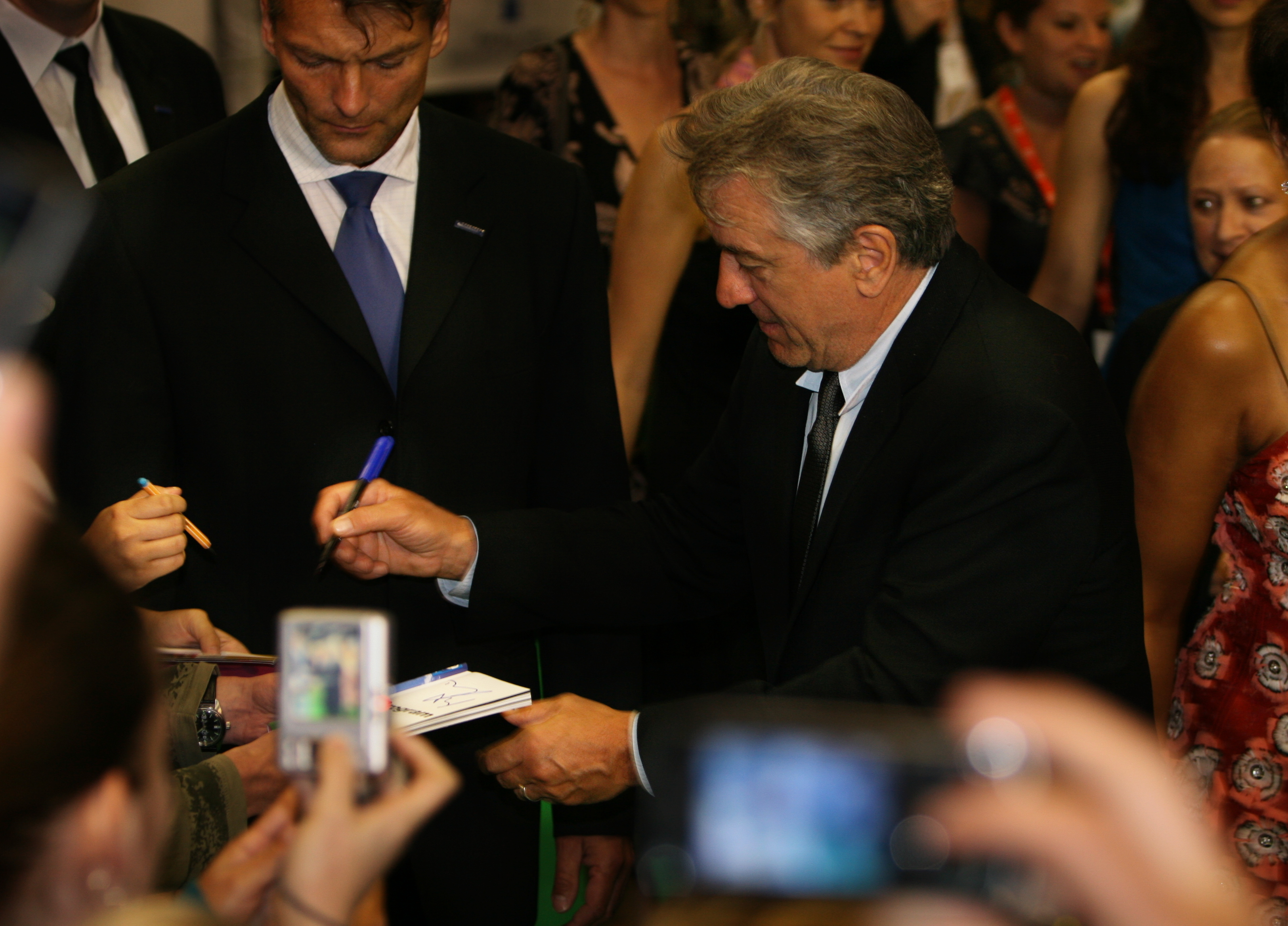 Robert De Niro at 43rd Karlovy Vary International Film Festival